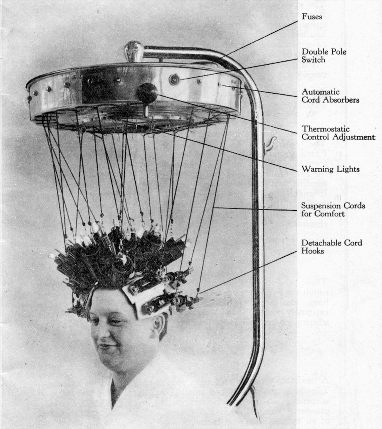 Wireless permanent-waving machine introduced in 1934 by Icall Limited to satisfy a demand for a machine in which there was no direct connection to electricity when the heaters were applied. Because such heaters started cooling as soon as they were applied to the hair, they were bulkier so as to provide a greater heat sink. Even so, timing had to be longer because of the cooling of the heater and waves tended to be softer.